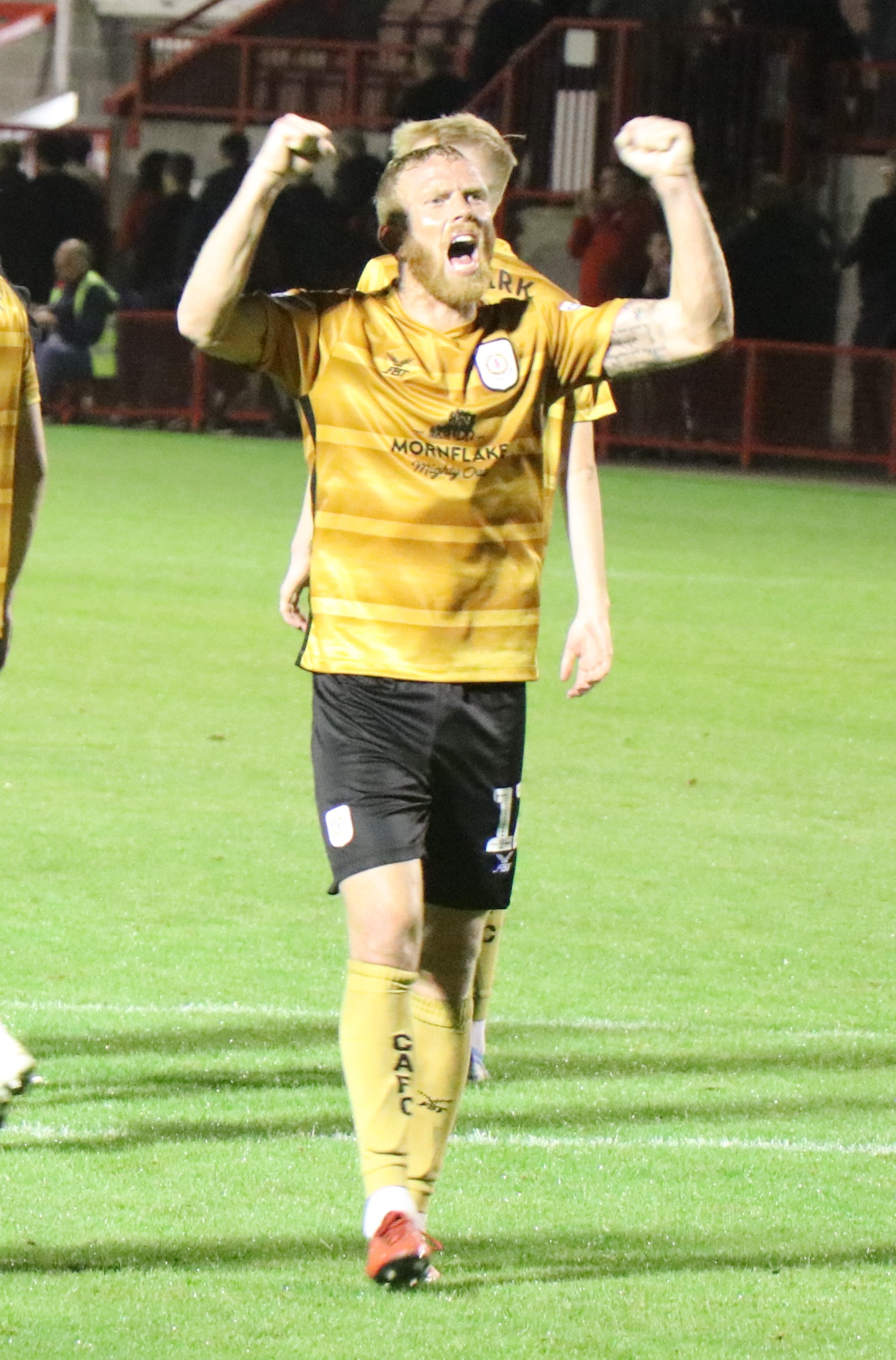 Crewe Alexandra footballer Paul Green celebrates at Crawley Town